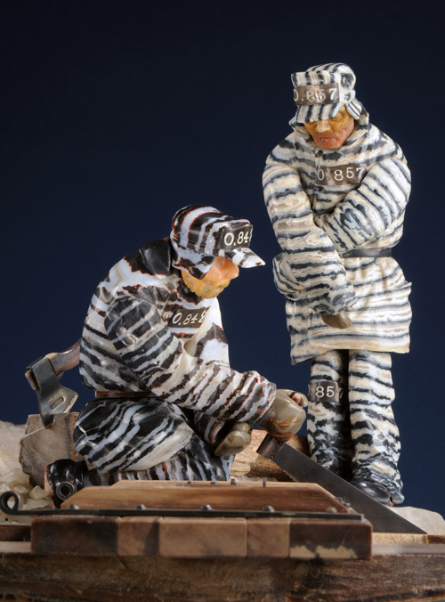 Detail of the gem sculpture "Prisoners" (1984) by Vasily Konovalenko. This image is from the image archives of the Denver Museum of Nature and Science, Denver, Colorado USA. Archive file name IV.DMF.1-20.l.jpg. Catalog number DMF.1-20.l. The sculpture, along with about 20 others, is on display at the Museum. Used in the Wikipedia page Vasily_Konovalenko.